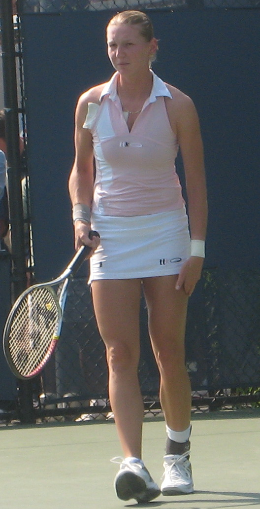 Renata Voráčová at the 2007 U.S. Open